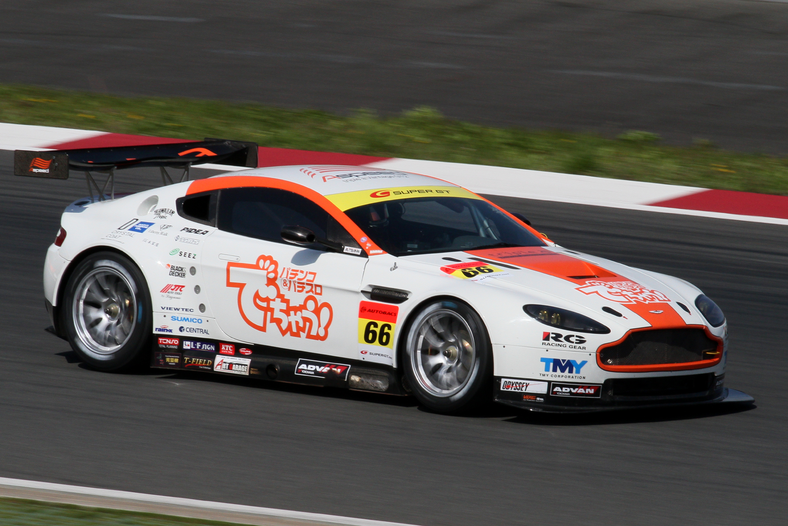 Super GT 2010 Rd.3 Fuji GT 400km: Hiroki Yoshimoto (A Speed) driving the triple a Vantage GT2 during qualify session.